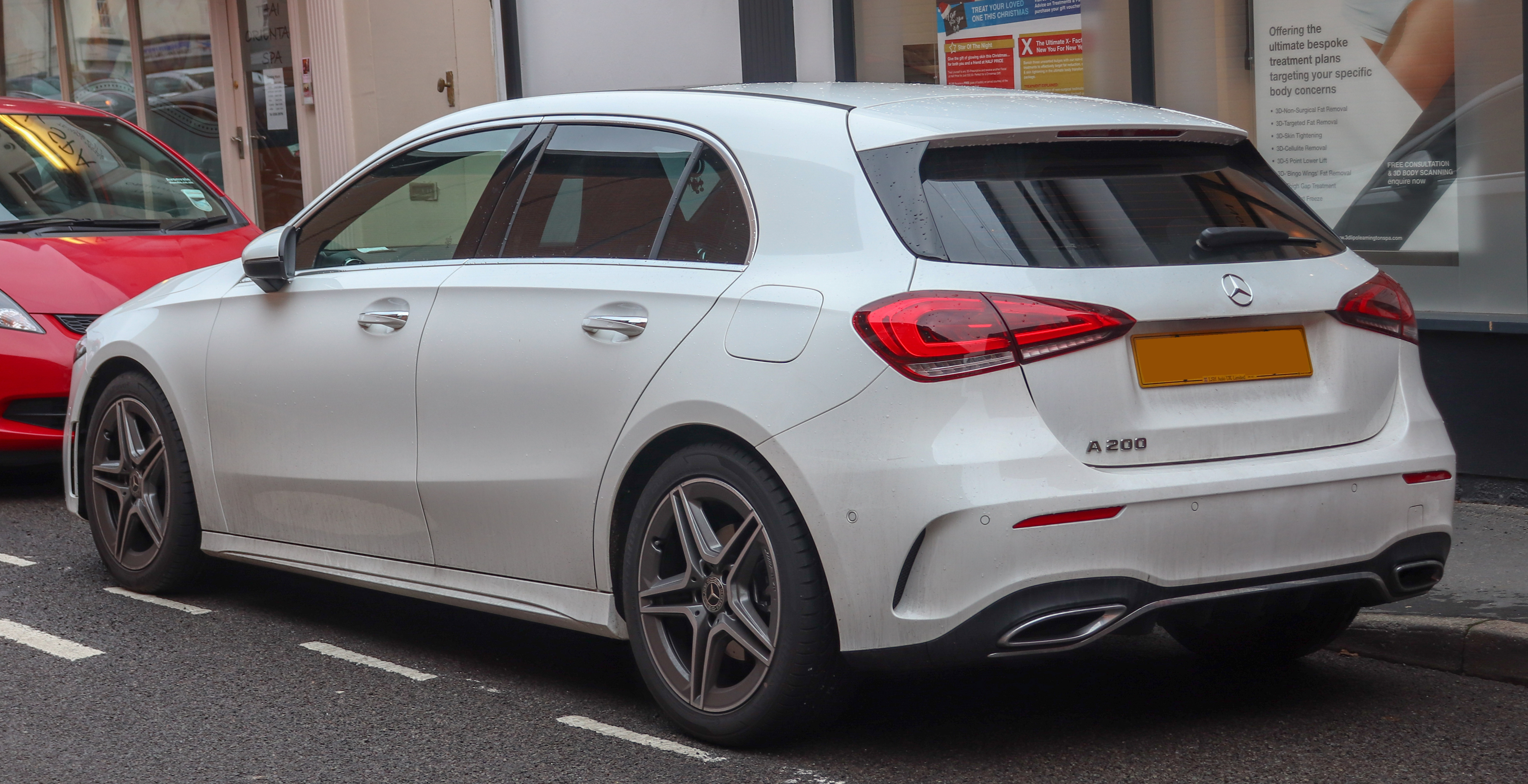 2018 Mercedes-Benz A200 AMG Line Premium+ 1.3 Rear Taken in Leamington Spa